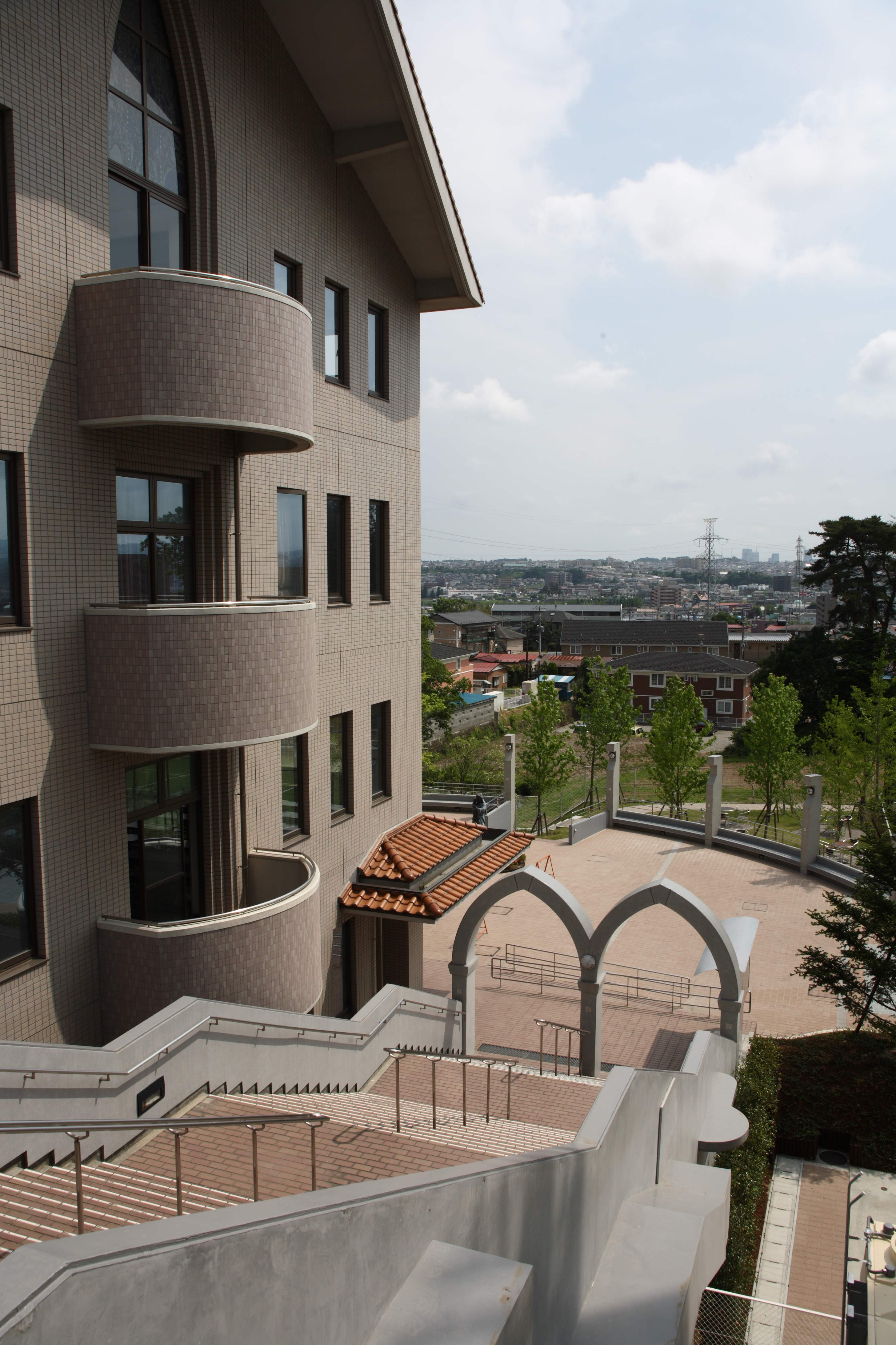 Sendai Shirayuri Women's College, build.n.5